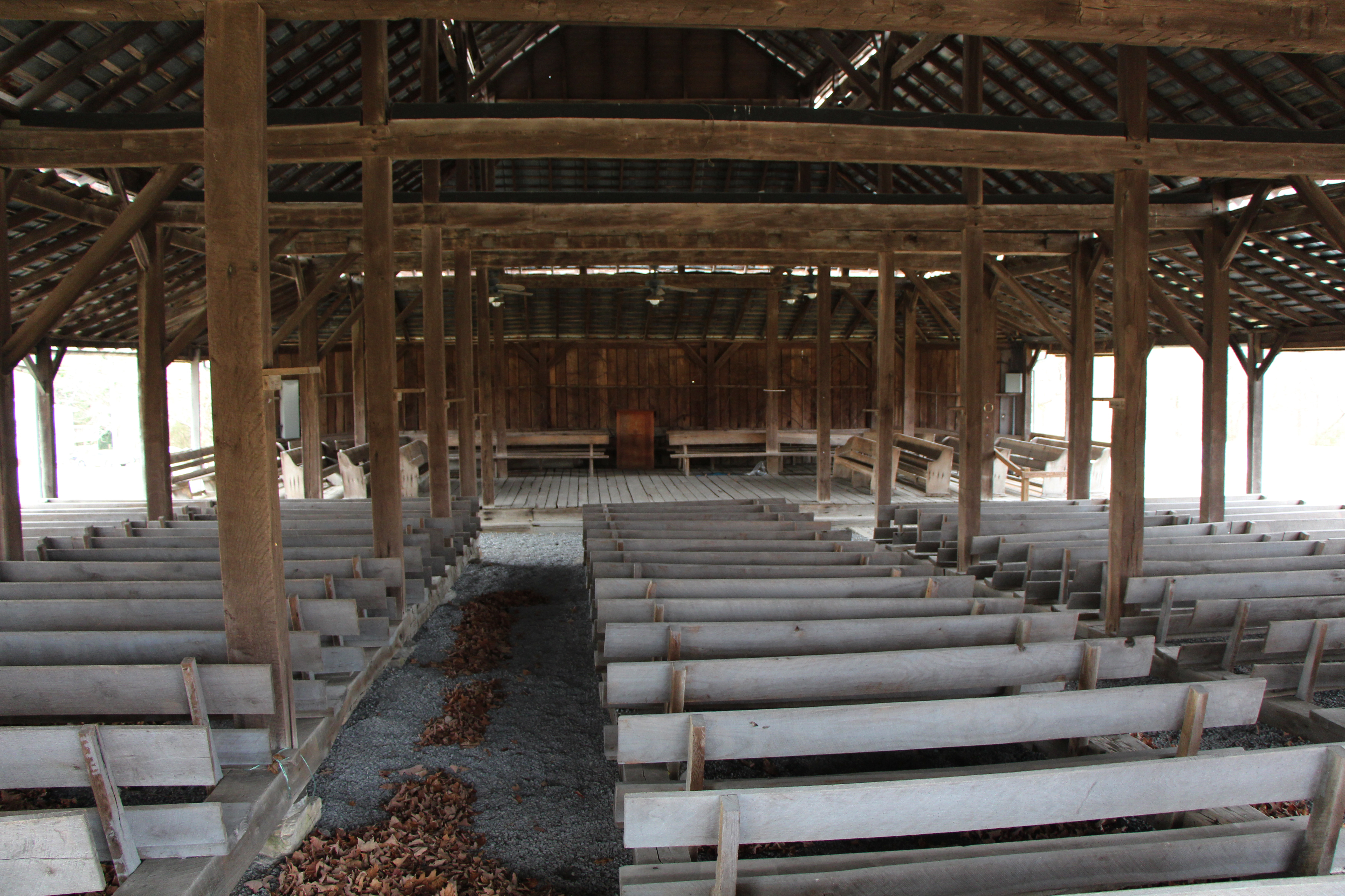 DeVault Tavern